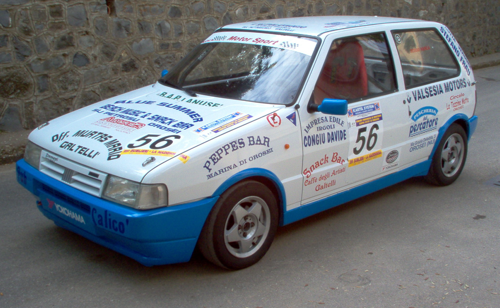 XVI Cuglieri-La Madonnina hillclimbing race (2004) - paddock